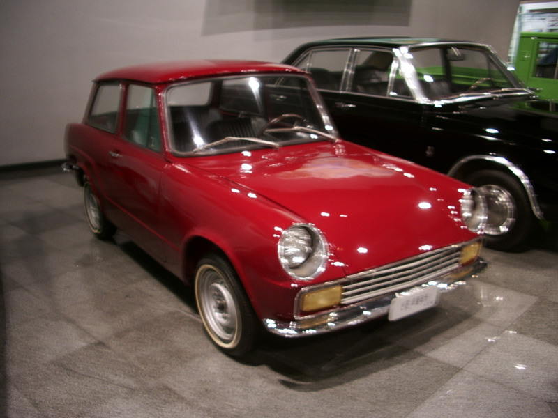 In 1961, General Park Chung-hee took over power via a military coup. He had an ambitious plan to build the nation's industry, and automotive industry was one of his longshot dreams. To that end, in 1962, he banned all imported automobiles, and forced foreign automakers to hire a Korean firm for the final assembly of their vehicles. The ban would stay until 1987 for non-Japanese vehicles, and 1998 for Japanese vehicles. Toyota came to South Korea at this time, partnering with Shinjin. The Publica was one of several Toyota products that Shinjin produced under license, commencing production in 1967. Shinjin's Toyota lineup also included the Crown luxury car, the Corona midsize car popular with taxi drivers, and the Land Cruiser utility. Due to the size and low cost, the Publica was the choice for those who wanted to do their own driving. The Publica, powered by a 697cc engine producing 28 horsepower, was very small and efficient; many said that the car could run on gasoline fumes alone. It was also quite cute; in an era when very few women were allowed to drive at all, a young woman in scarf, sunglasses, and white gloves driving a red Publica like this would have been the envy of an entire city. However, being air-cooled, it was prone to overheating. Thanks to the Publica, South Korean rule of thumb for long-distance driving has been to take a 10-minute break every two hours, and the rule has stuck even with today's superior vehicles. Toyota abandoned Shinjin in 1972 to concentrate on China, and by that point, a total of 2,005 Publicas had been produced by Shinjin. Shinjin would go on to partner with General Motors, and continue to be a key player in South Korean automotive industry under a different name, Daewoo.